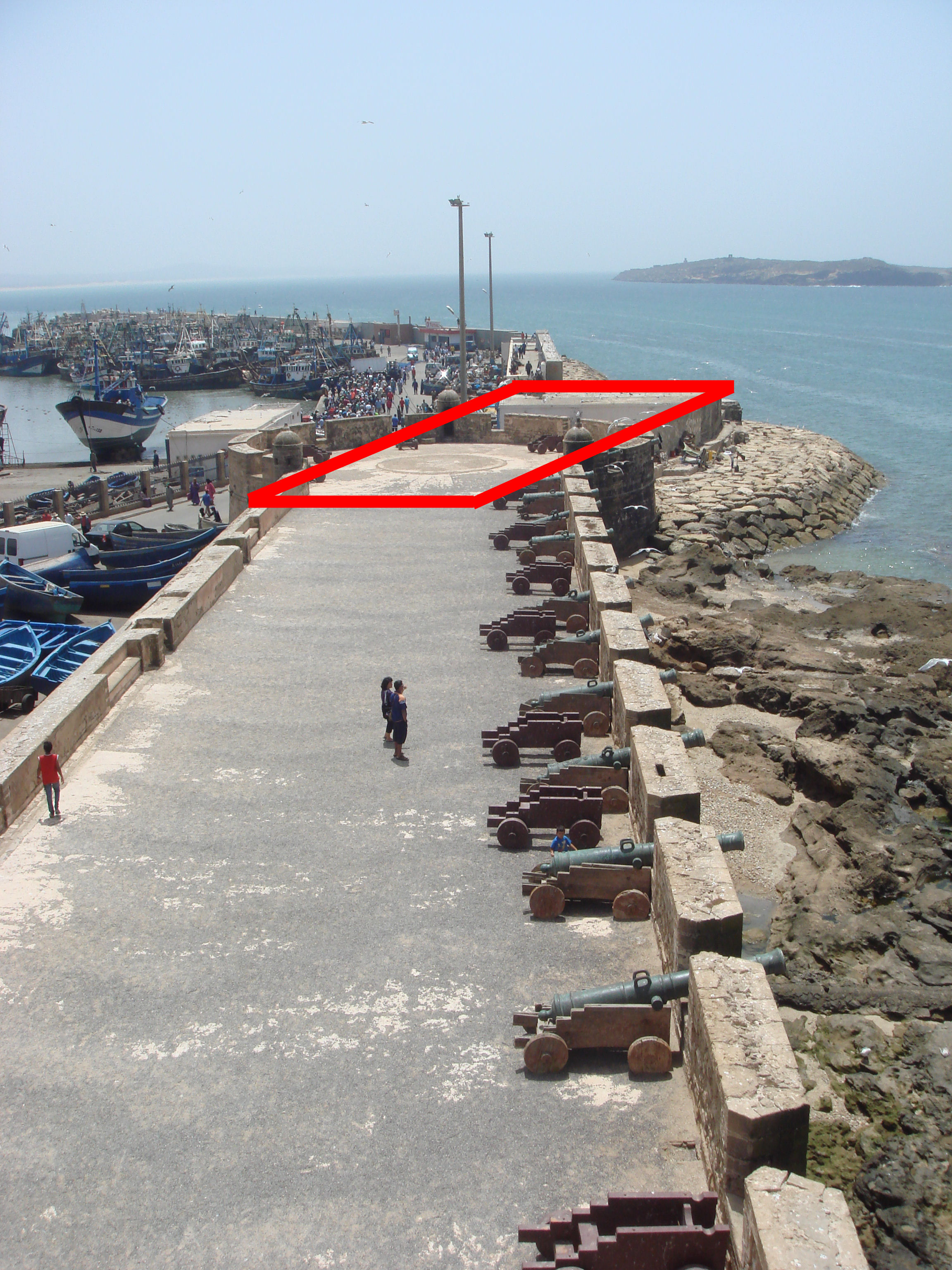 Scala_del_Mar_Essaouira